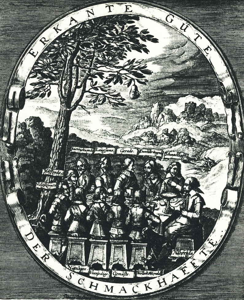 Kupferstich von Peter Ißelburg, der eine Sitzung der barocken "Fruchtbringenden Gesellschaft" abbildet.